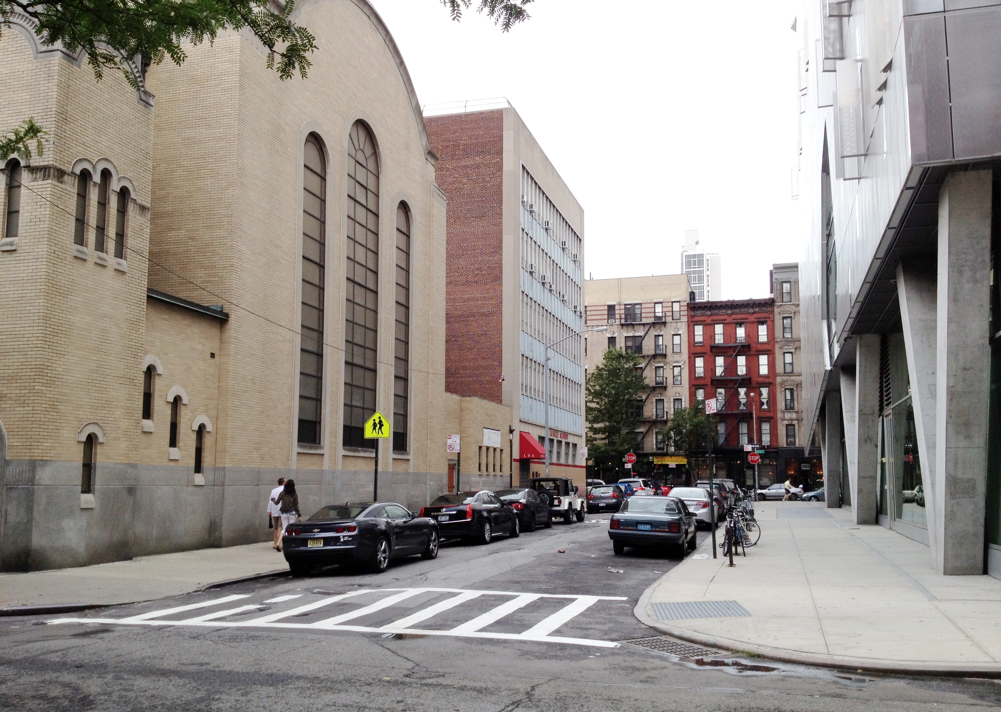 View of Taras Shevchenko Place looking south from East 7th Street